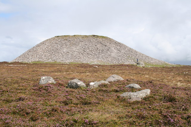 Maeve's Grave Atop Knocknarea is this huge unexcavated cairn (10m high and 55m in diameter). It probably covers a passage tomb and was built by the Neolithic people around 3000 BC. Around it are a number of small tombs like the one in the foreground. Legend has grown around it being the resting place of Maeve, the Iron Age queen of Connacht - unfortunately she is relatively modern!